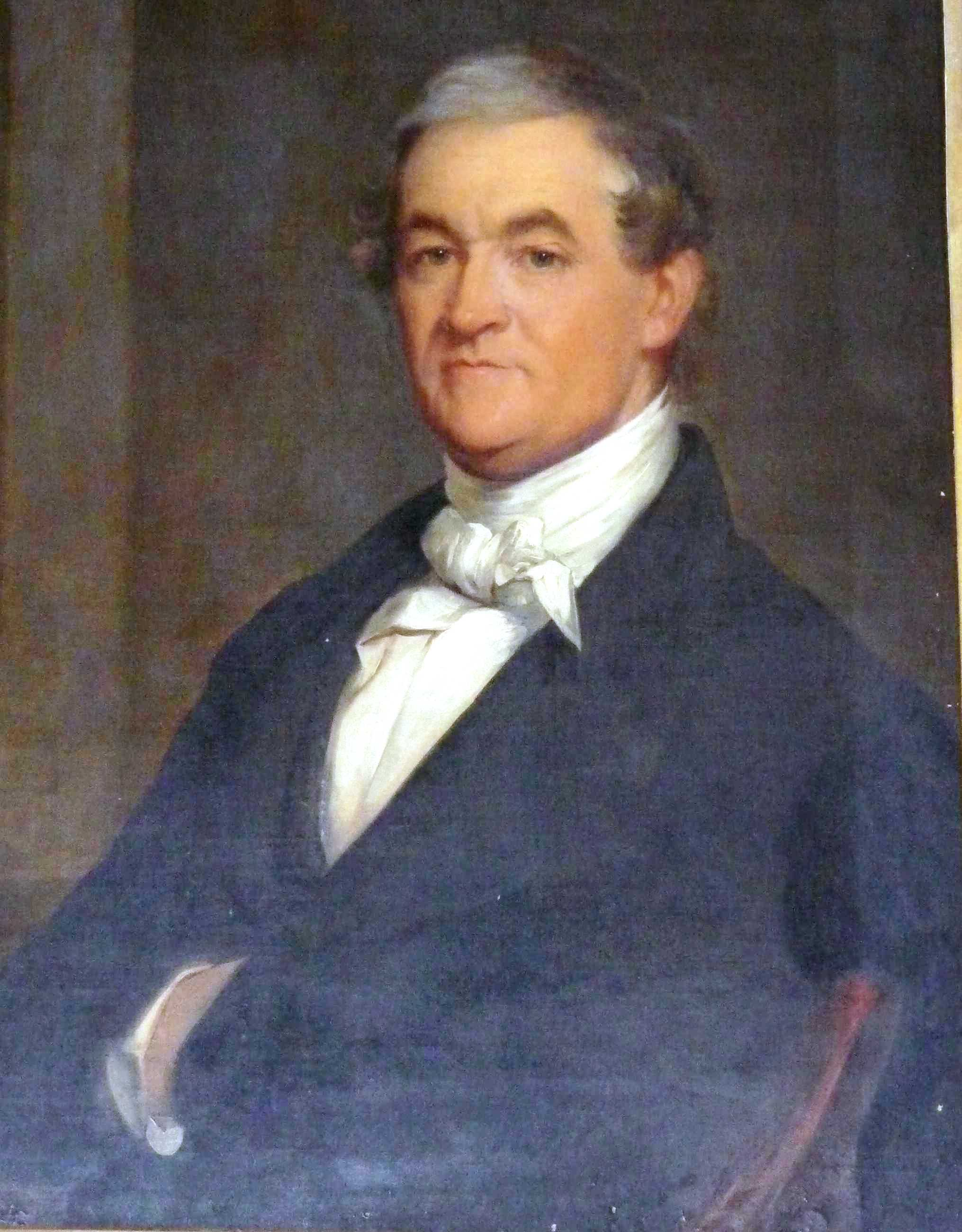 Alfred Conkling - Photo of family portrait - oil painting. Date of portrait is unknown